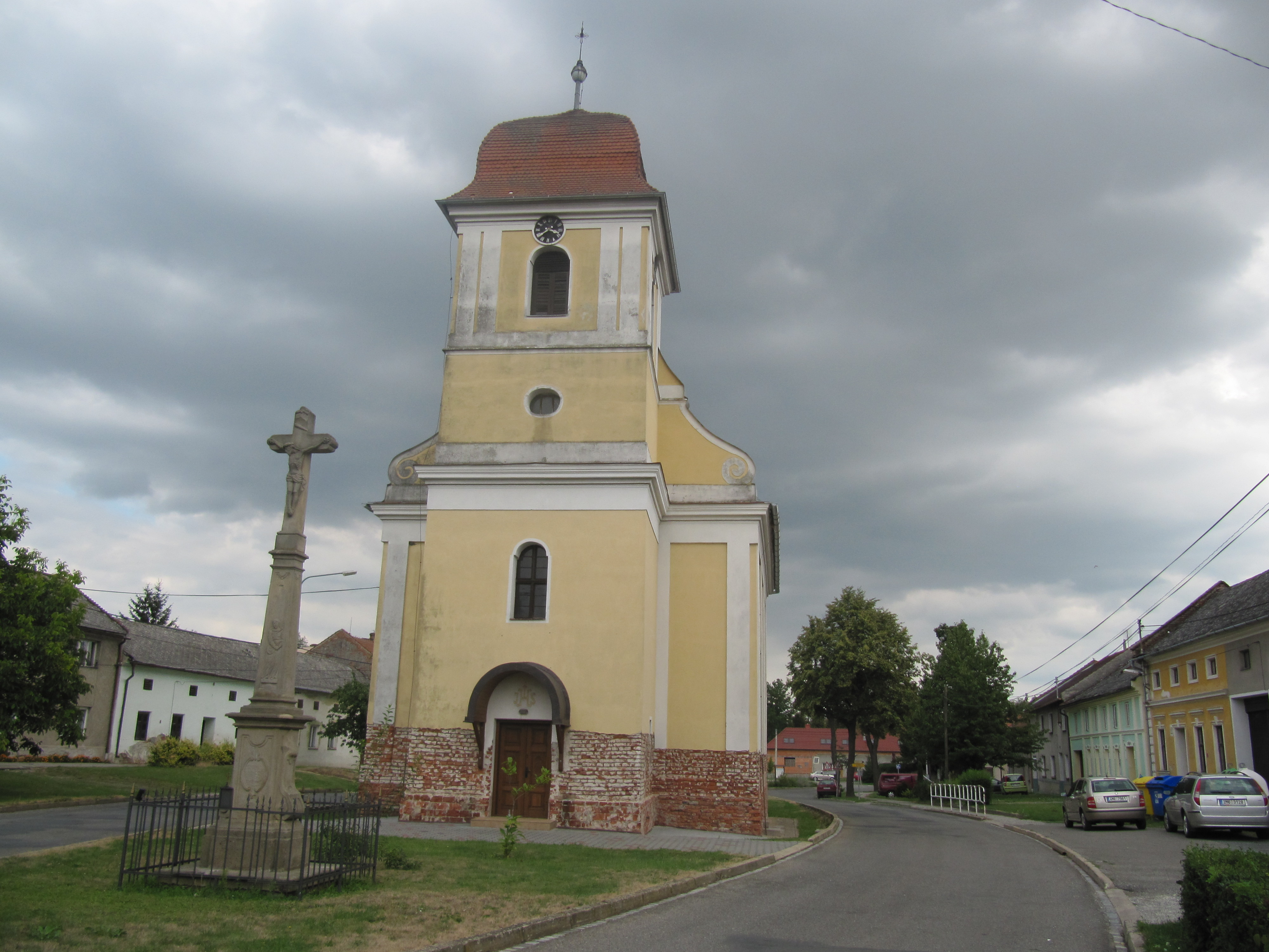 Lobodice, Přerov District, Czech Republic. Parish Church of the Immaculate Conception of the Virgin Mary.